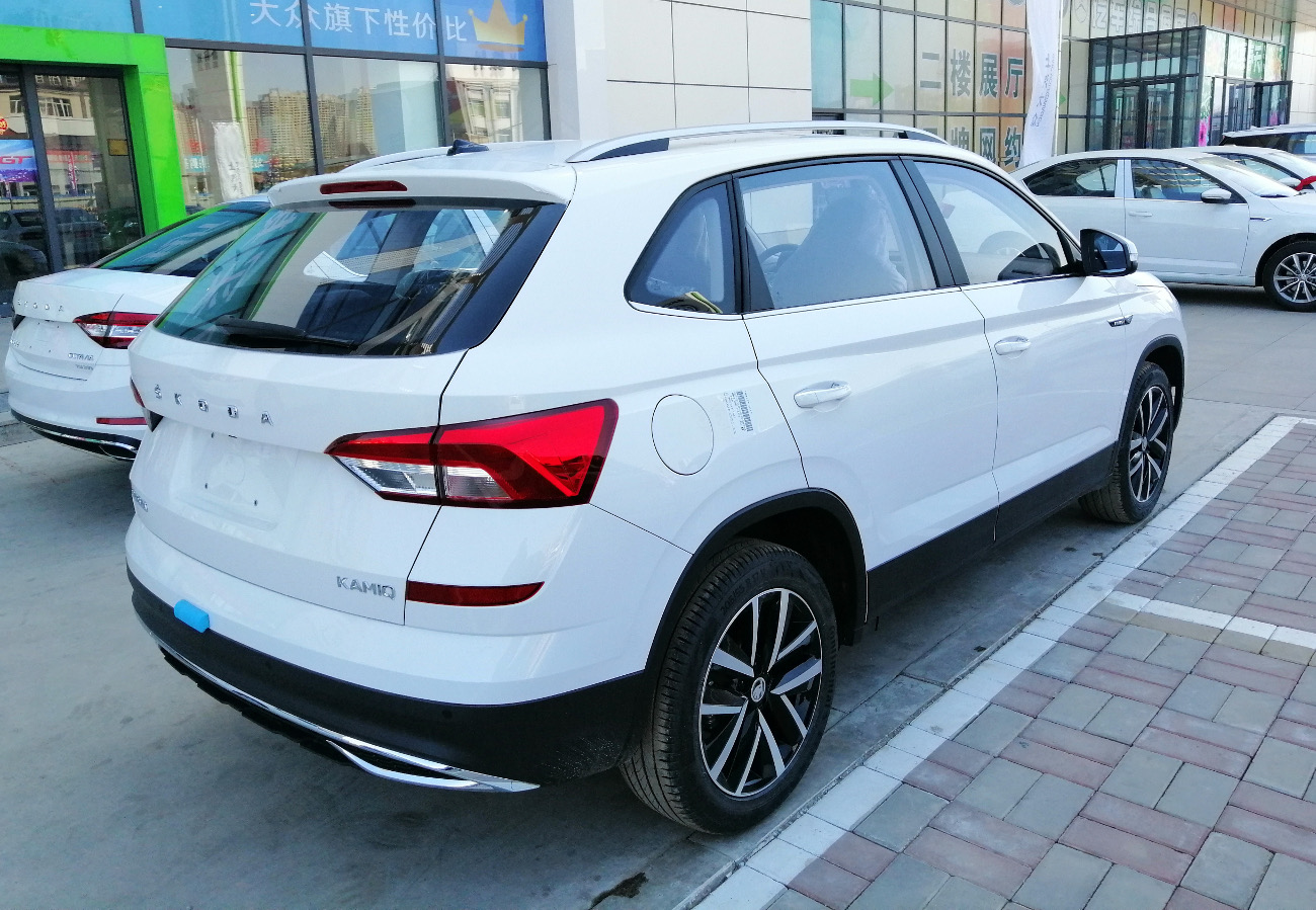 Škoda Kamiq CN photographed in Hohhot, Inner Mongolia autonomous region, China.